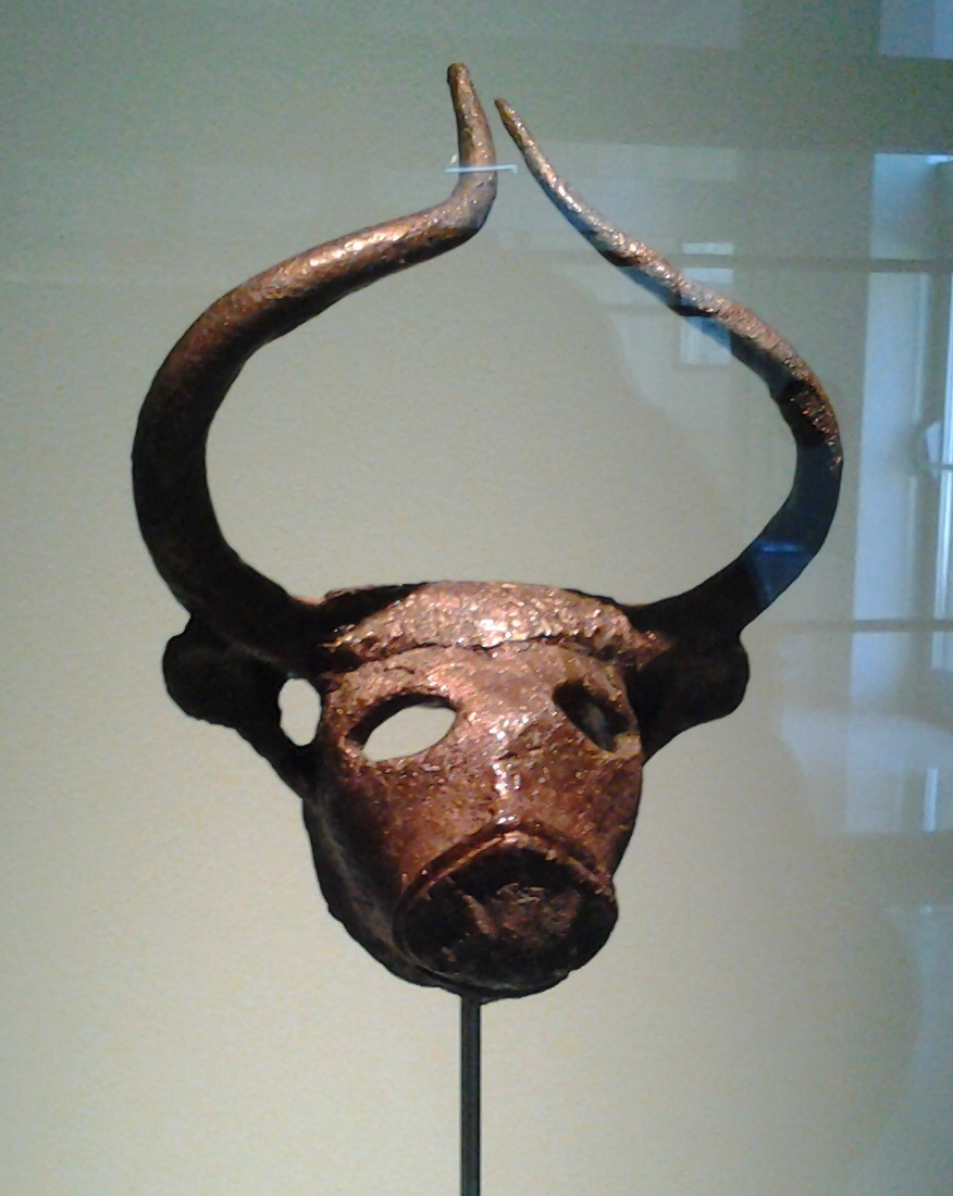 Bull's head, made of copper in early Dilmun period (ca. 2000 BC), discovered by Danisch archeologists under Barbar Temple, Bahrain. Exhibit in Bahrain National Museum.